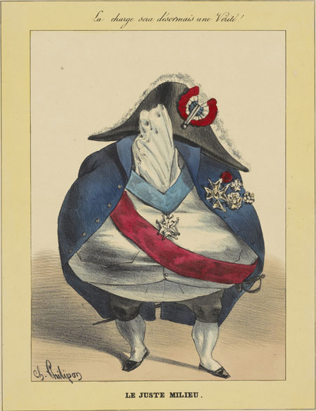 Cartoon of Le Juste Milieu (the middle way), a philosophy proposed by Louis Philippe that would avoid the extremes of autocracy and mob rule